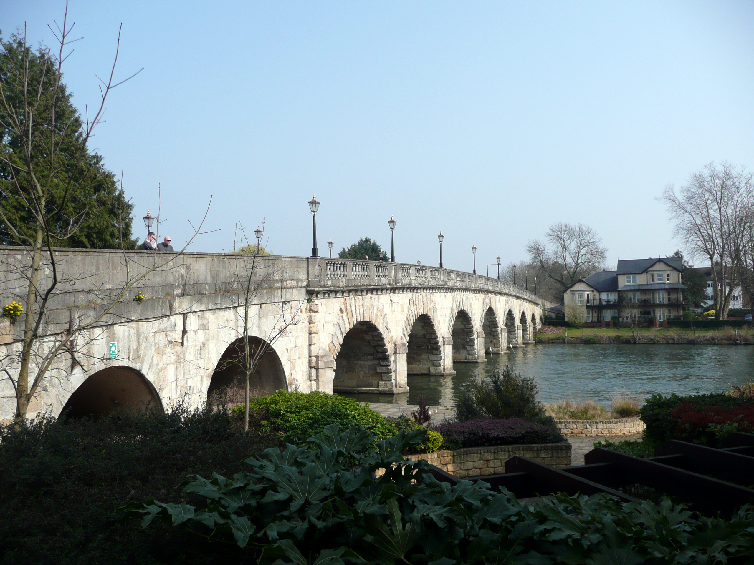 Bridge over the River Thames in Maidenhead. Designed by Sir Robert Taylor and built 1772-7. Thirteen arches of Portland stone.